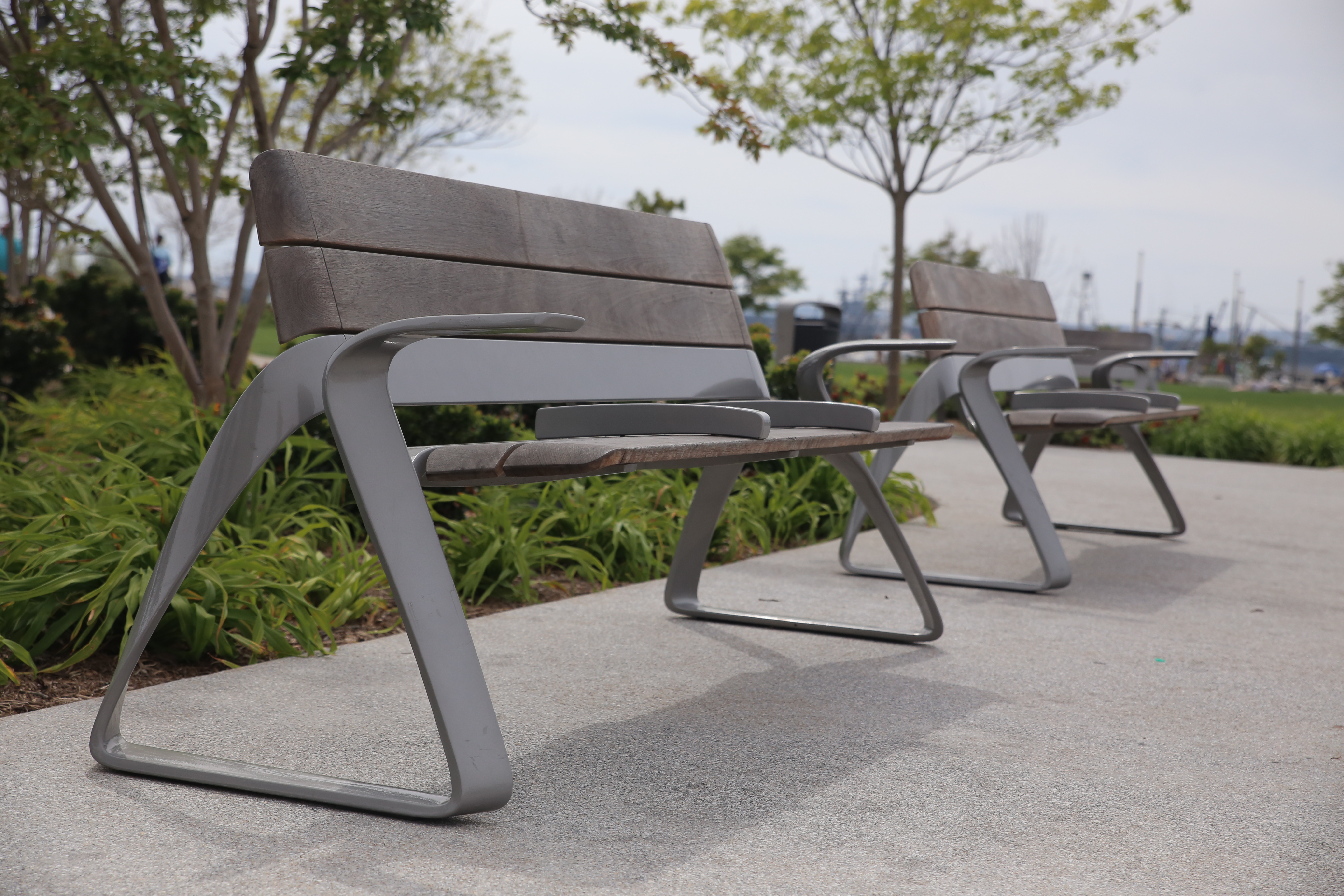 Two benches in a park.